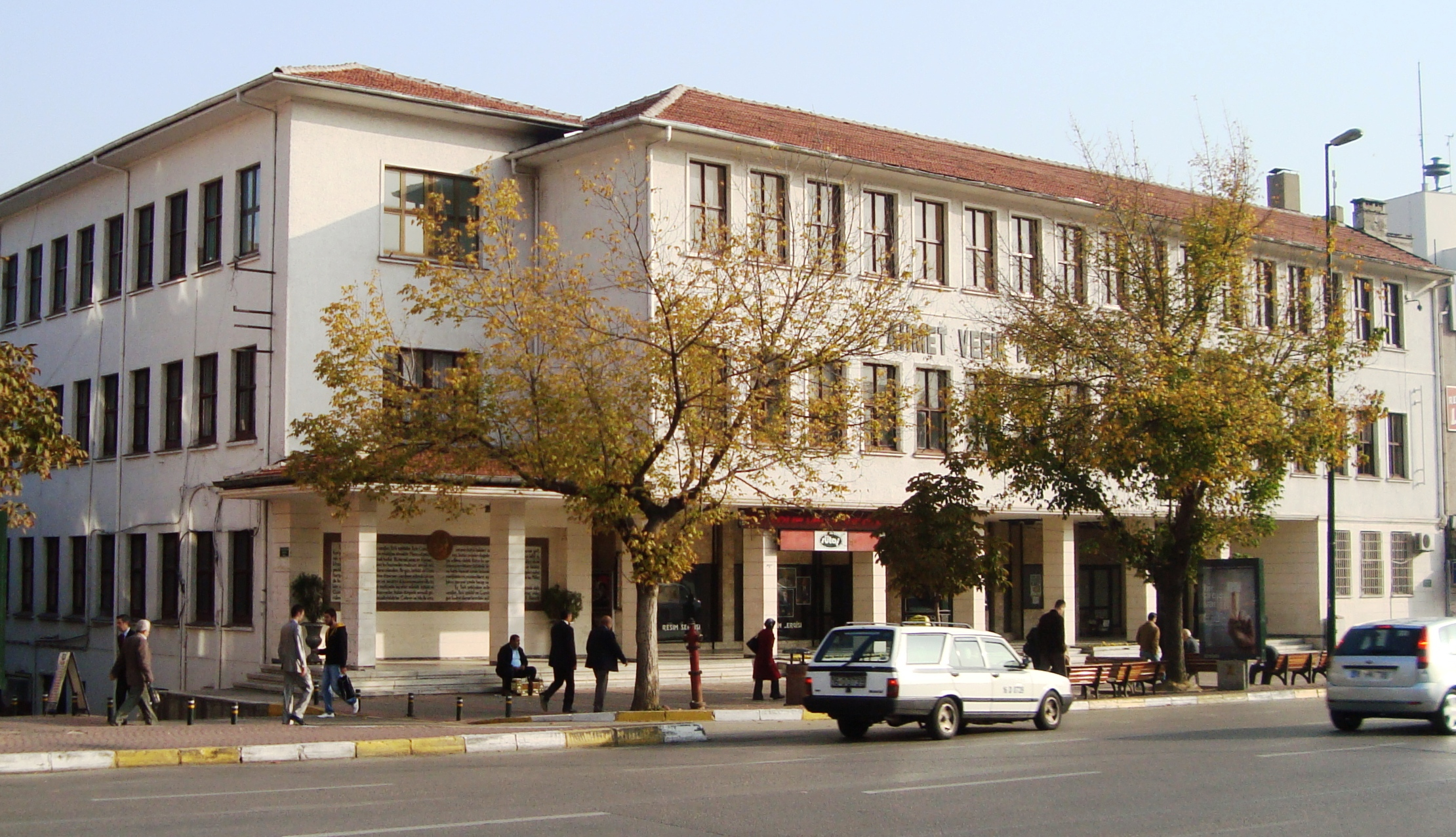 AHMET VEFİK PAŞA TİYATROSU